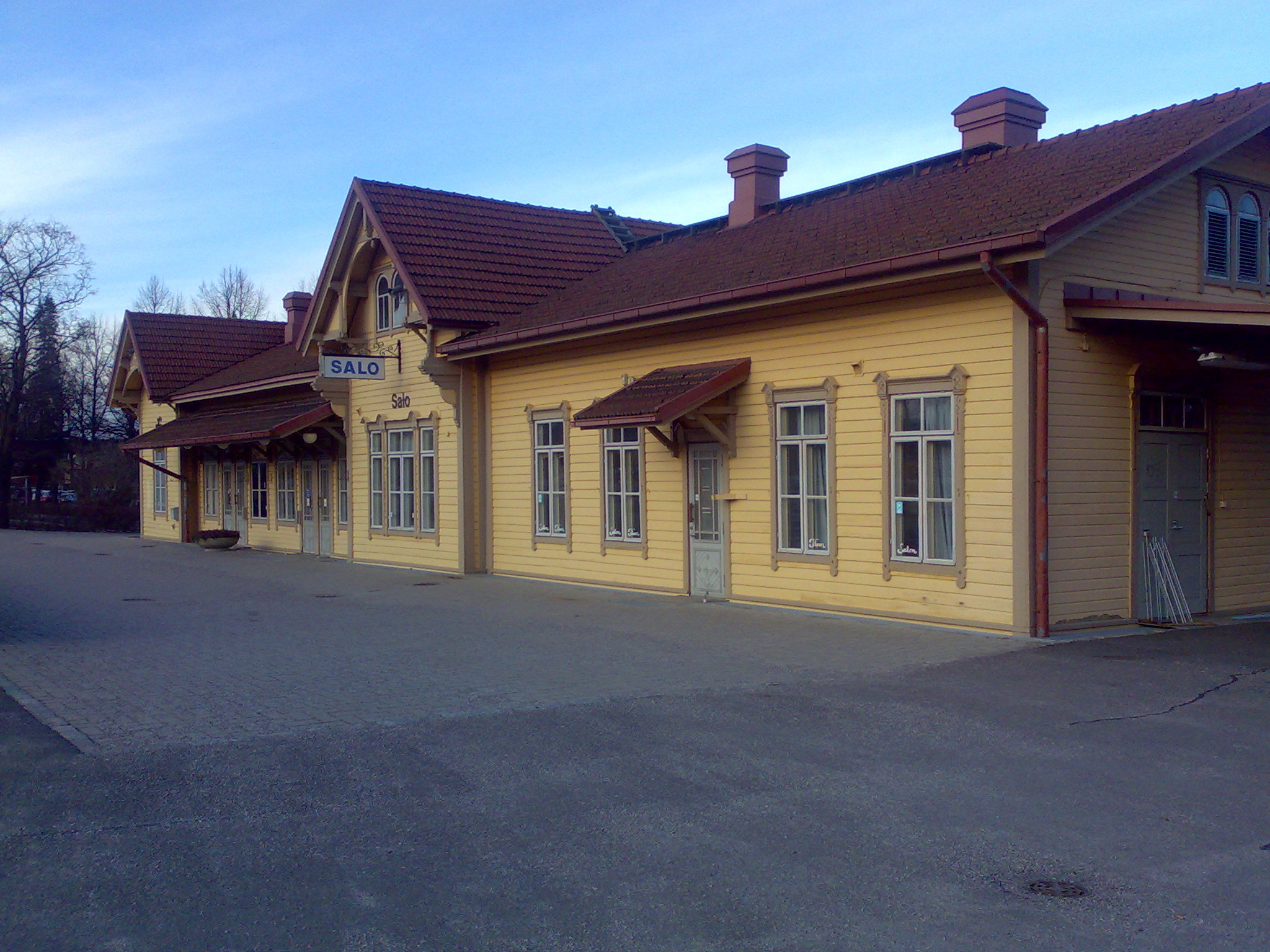 Salo railway station